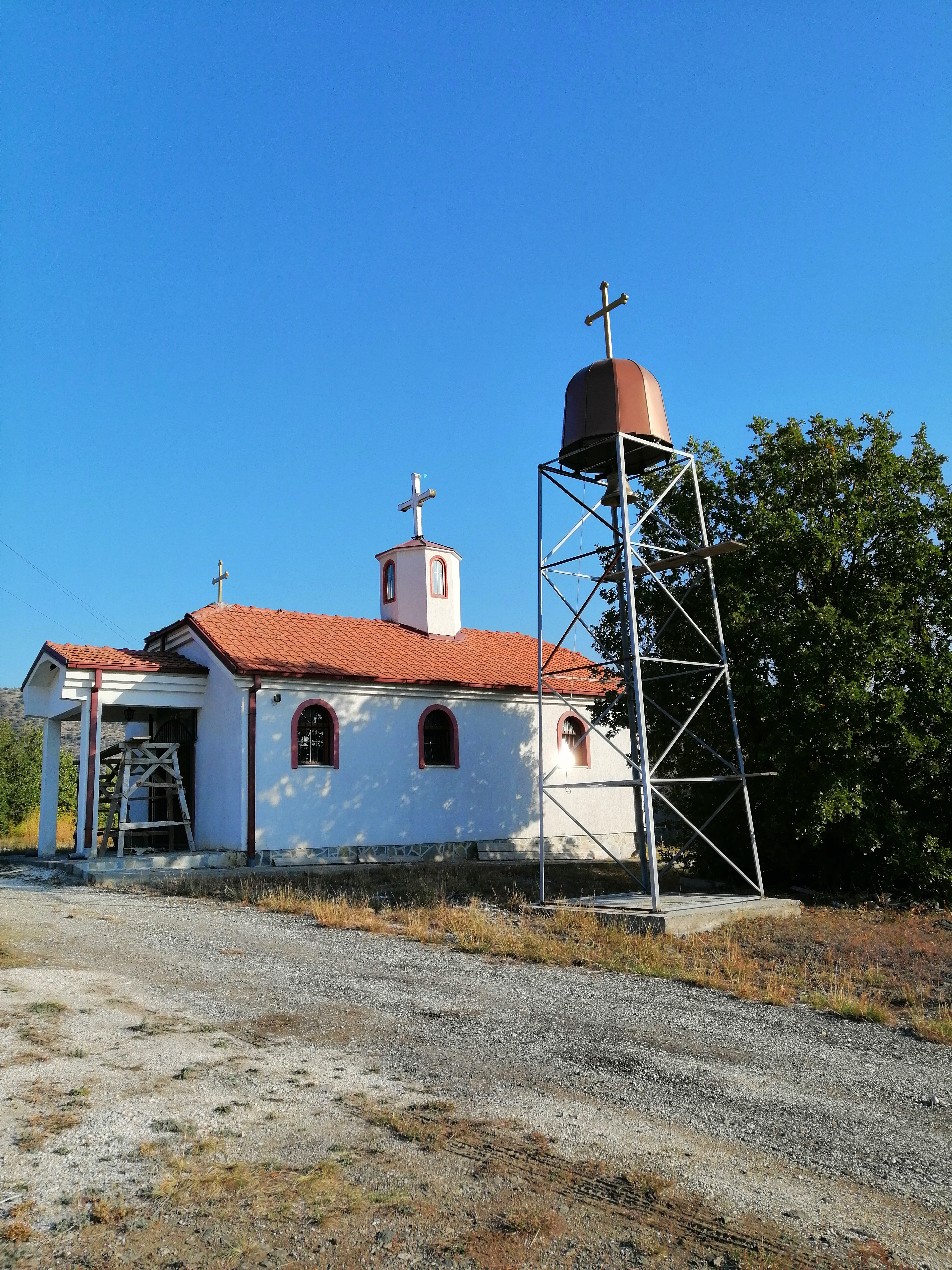 View of the Church of the Ascension of Jesus in the village Orman